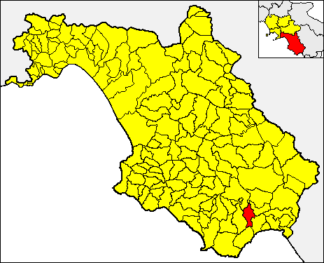 Locator map of the municipality of Torre Orsaia (red) within the Province of Salerno